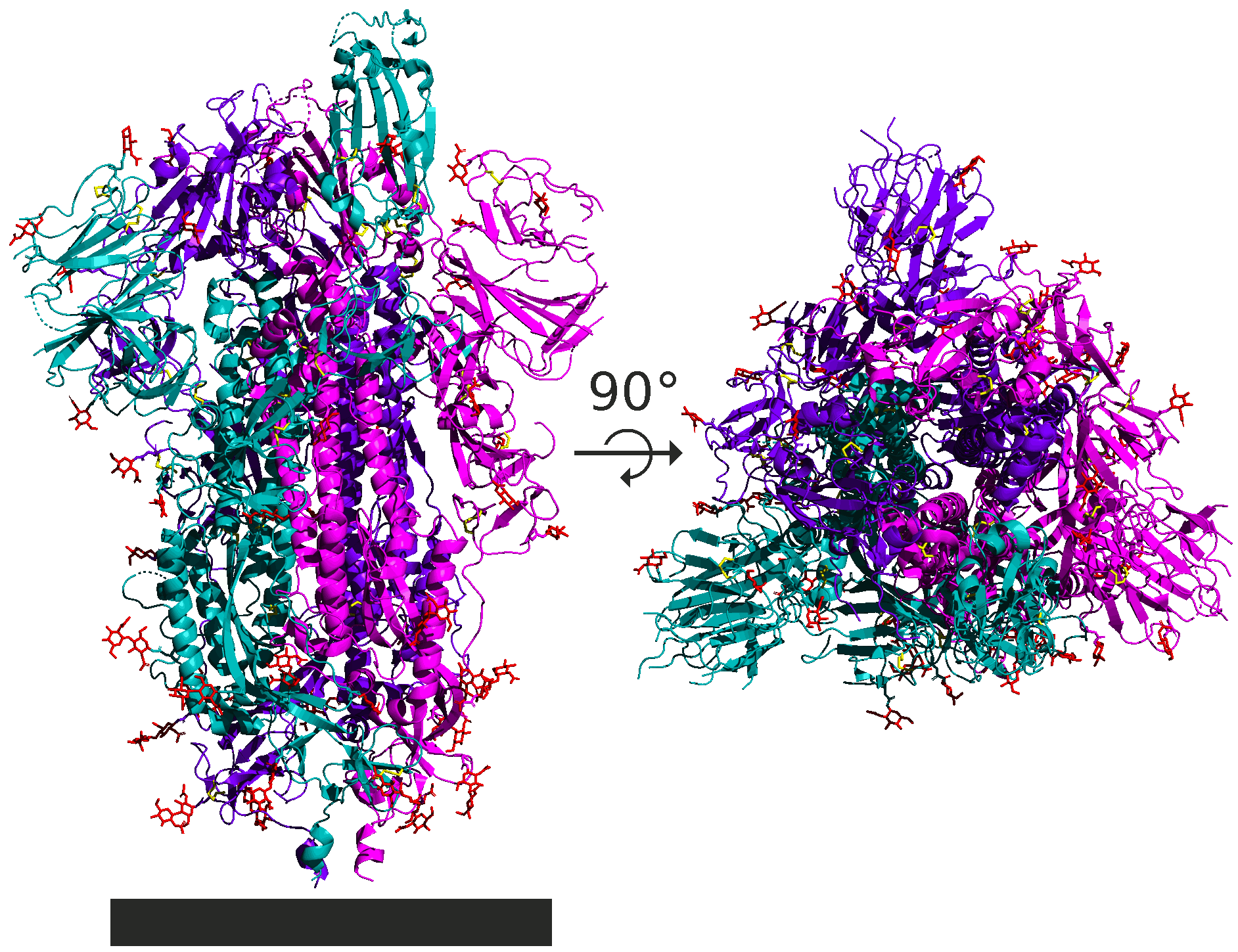 Spike glycoprotein from SARS-CoV-2 from 2 angles: side view and top view. Latter is roted by 90 degrees. PDB: 6VSB. Homotrimer. Parts of the actual structure are not shown. Top of the protein (left) binds human ACE2 receptors through which SARS-CoV-2 binds to cells and infects them. Teal, magenta and purple: monomers. Yellow: disulfide bonds. Red: carbohydrates. Gray block: lipid membrane of the virus.